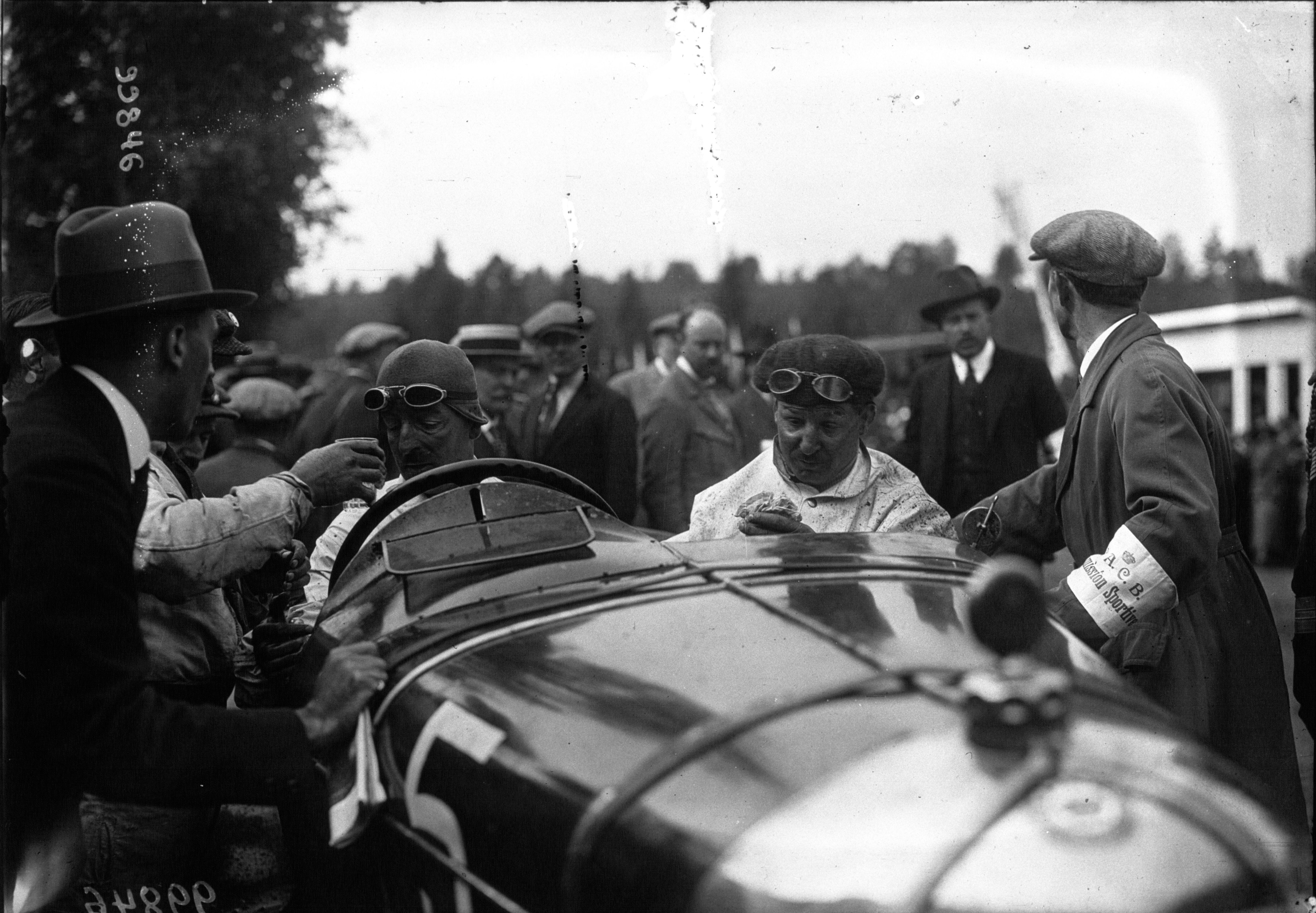 de Tornaco at the 1922 Belgian Grand Prix